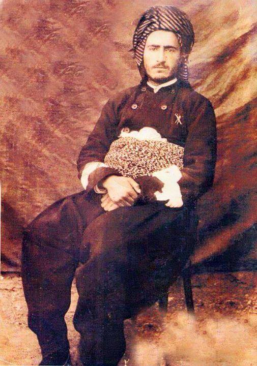 Qazi Muhammed wearing Kurdish clothes